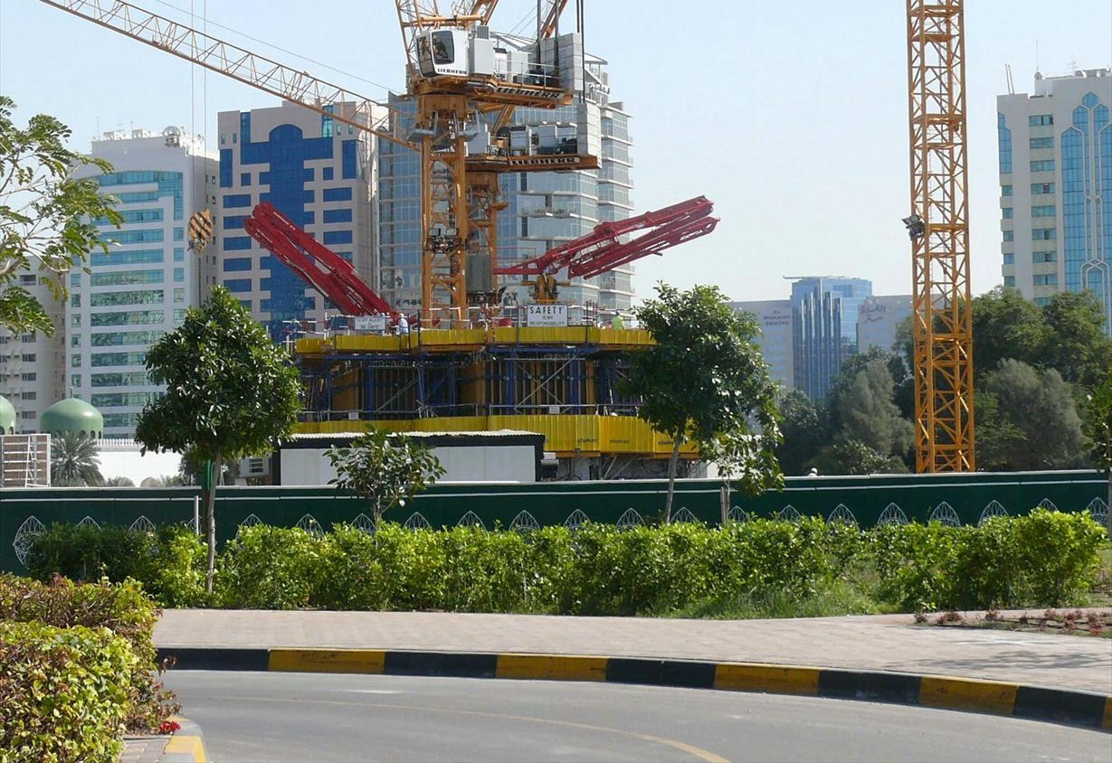 This is a photo showing the construction of The Landmark, located in Abu Dhabi, United Arab Emirates, on 30 January 2008.